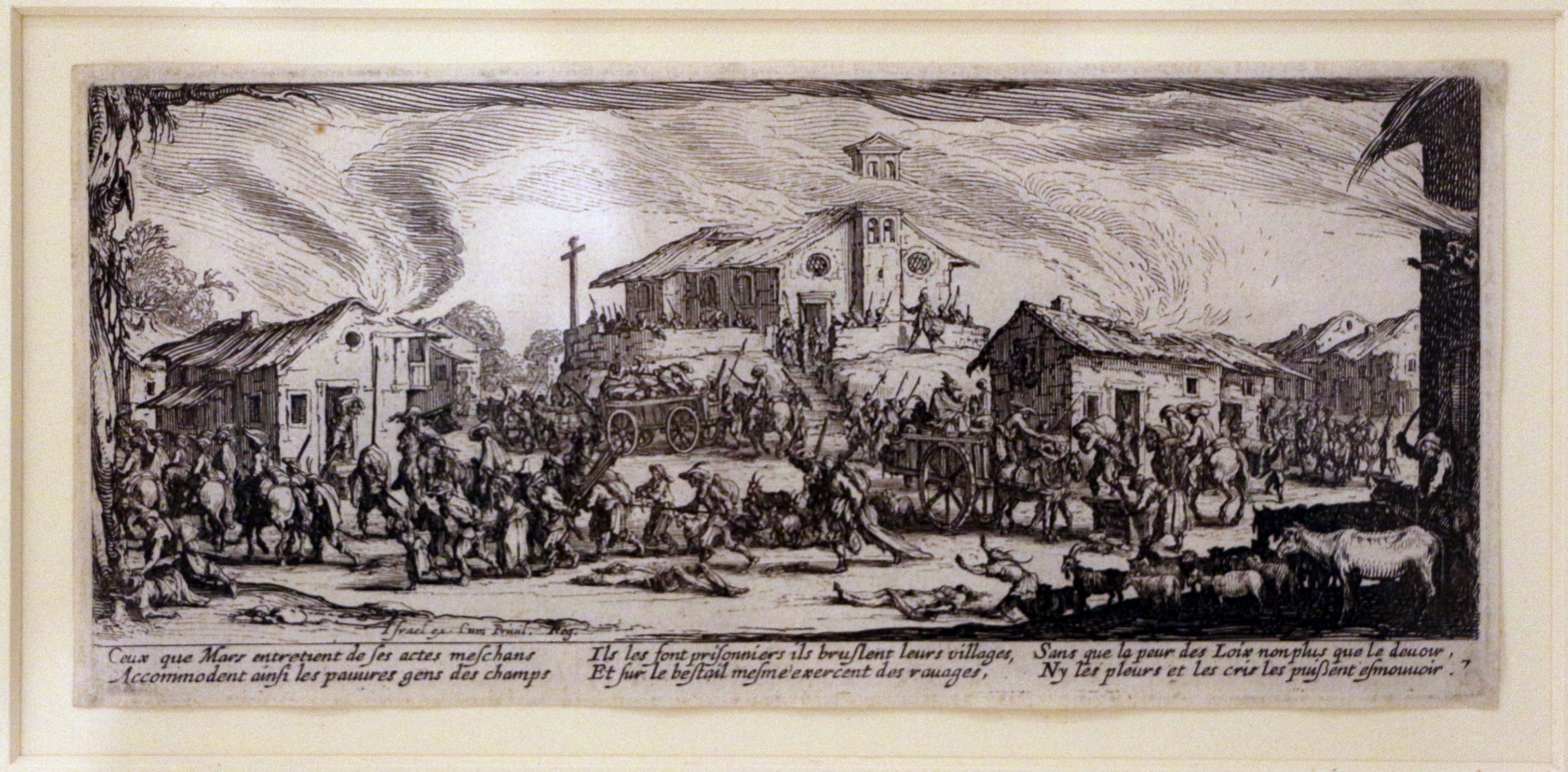 Collections of the Smart Museum of Art